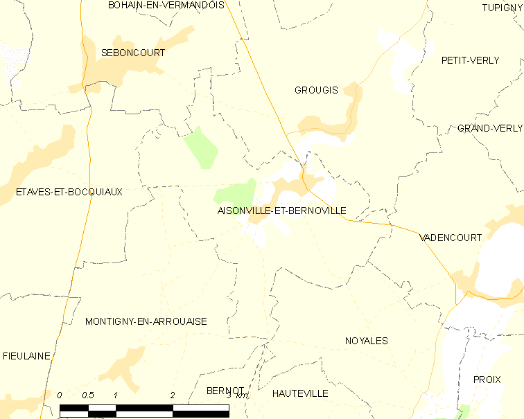 Map of French commune: Aisonville-et-Bernoville Map commune FR insee code 02006.png